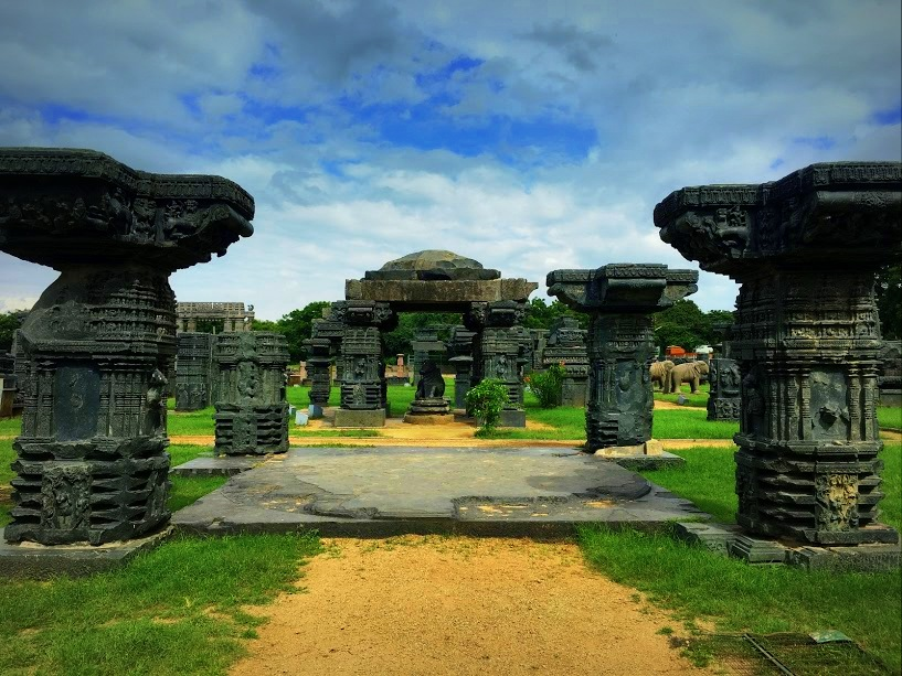 Nandi in Mandap,Remnants of Warangal Fort